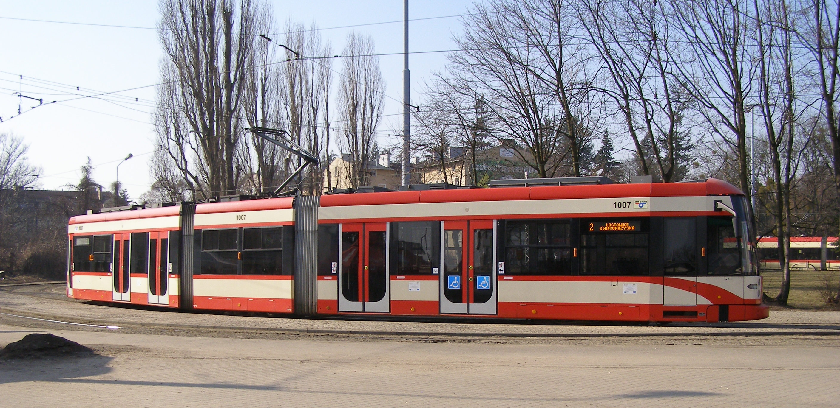 Gdańsk - Bombardier NGT6-2 tram #1007 on line No. 2 at the Oliwa terminus